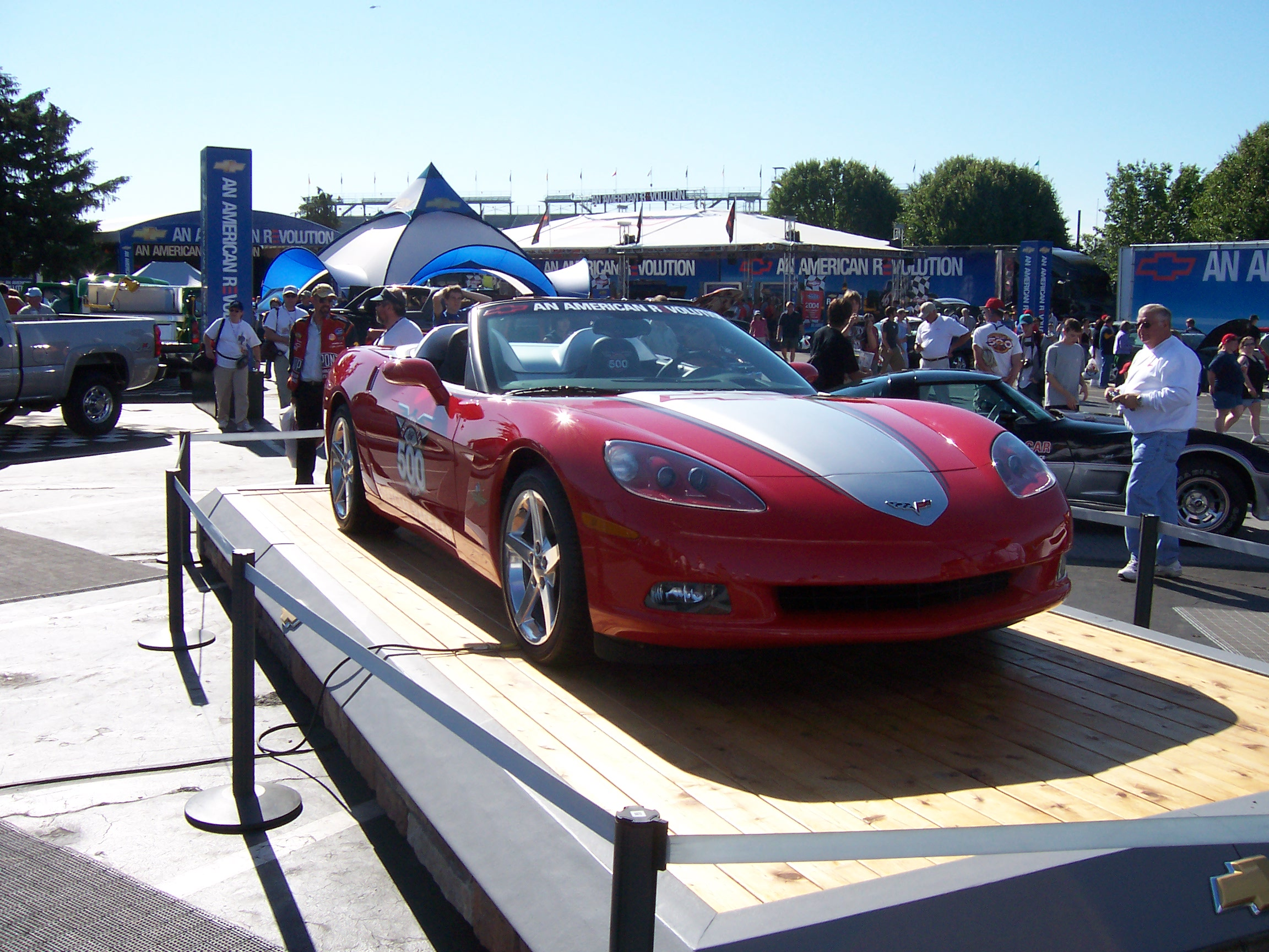 2005 Indianapolis 500 pace car replica